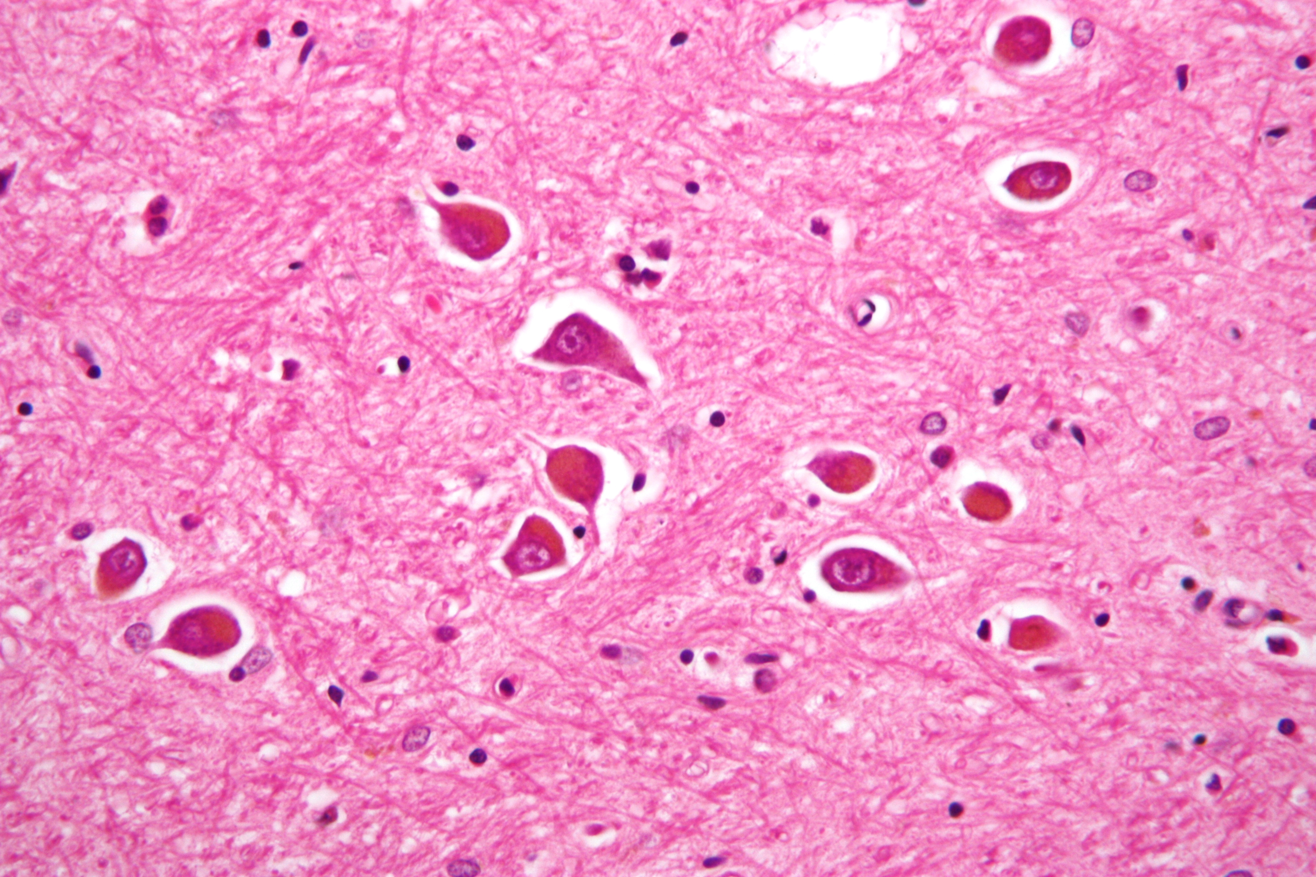 High magnification micrograph showing Alzheimer type II astrocytes.